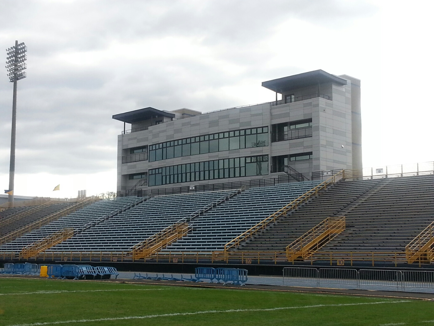 Pressbox and West End Stands of Aggie Stadium in Greensboro, NC. Designed by Clark Nexsen